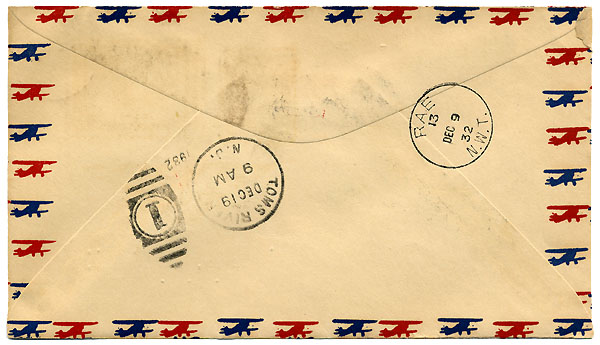 Back of Canadian first flight cover of 1932